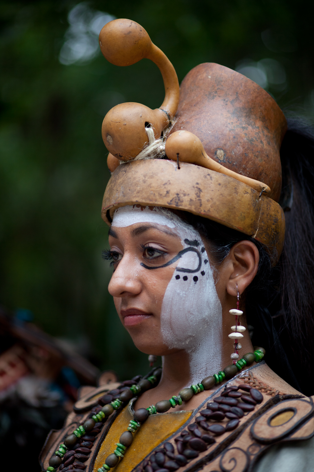 Xcaret Park Maya Woman Chetumal-Puerto Juarez Federal Highway, Km. 282, 77710 Solidaridad, Quintana Roo, Mexico. Camera: Canon EOS 5D Mark II Lens: Zeiss Makro-Planar T* 2/100 ZE 0 ISO: 500